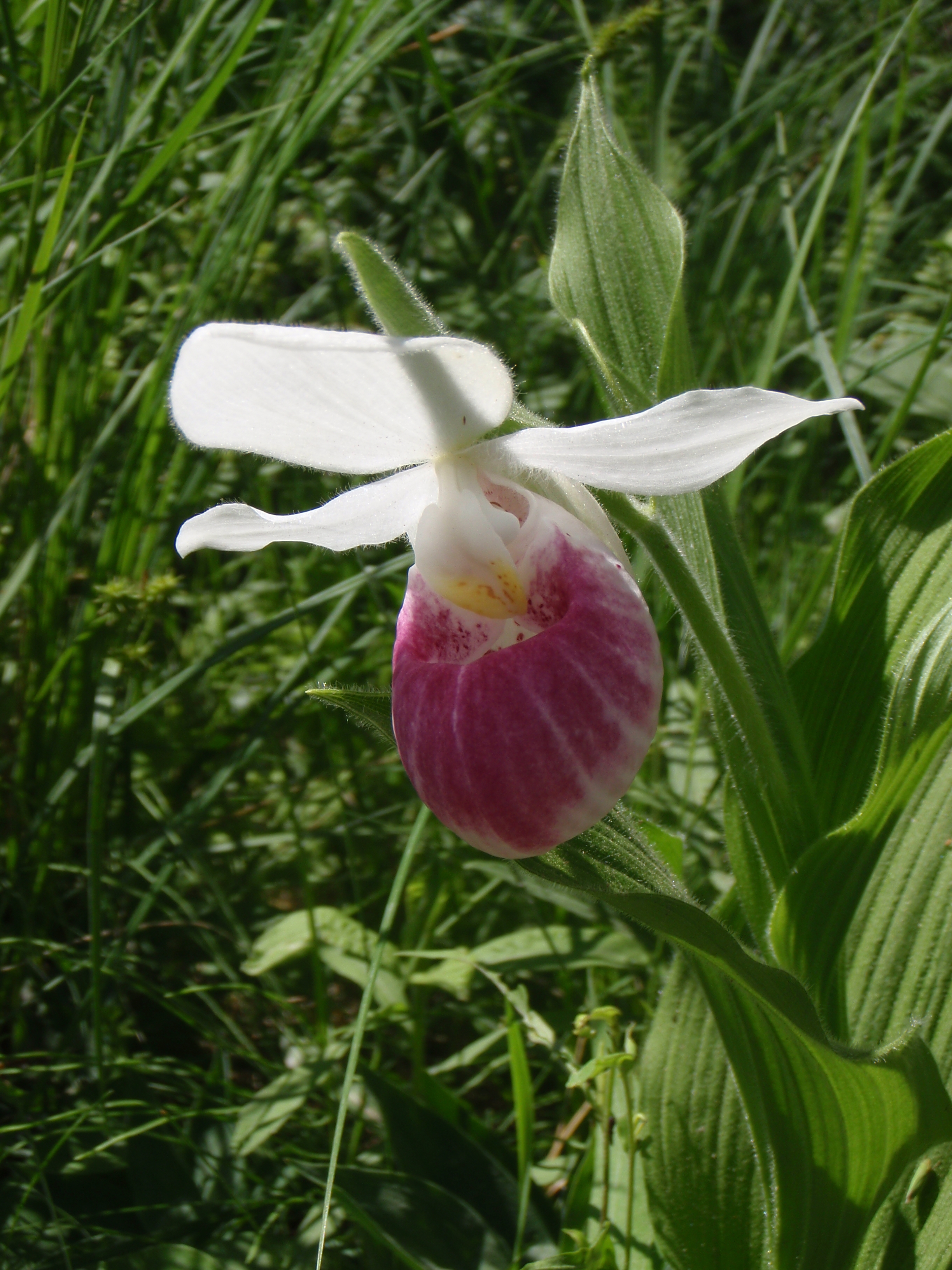 Lady slipper found in Lupton, MI at the Rifle River State Recreation Area.